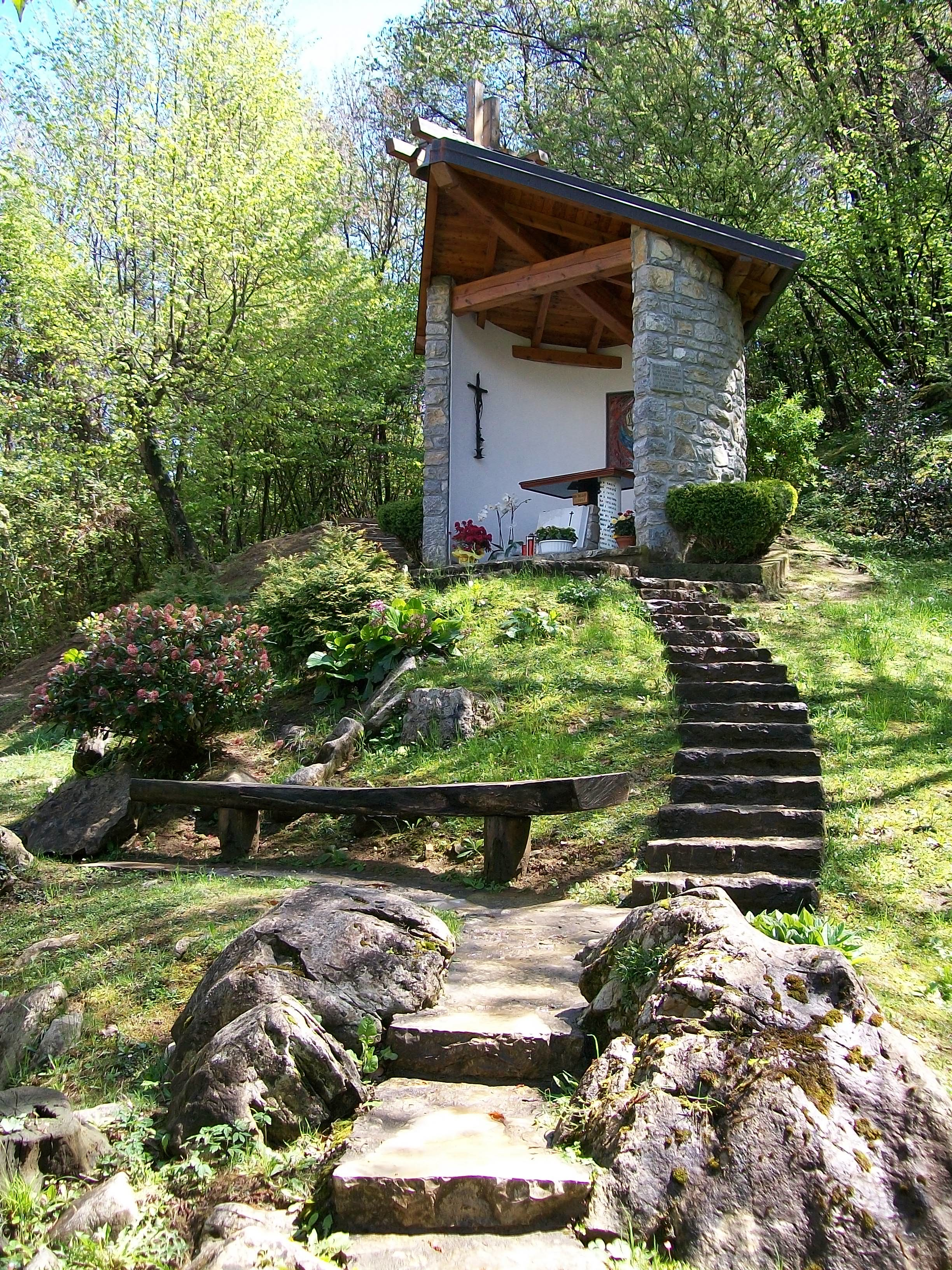 Chapel built on the site of the Blessed Pierina Morosini's martyrdom